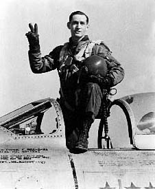 Lt. Col. George A. Davis Jr.